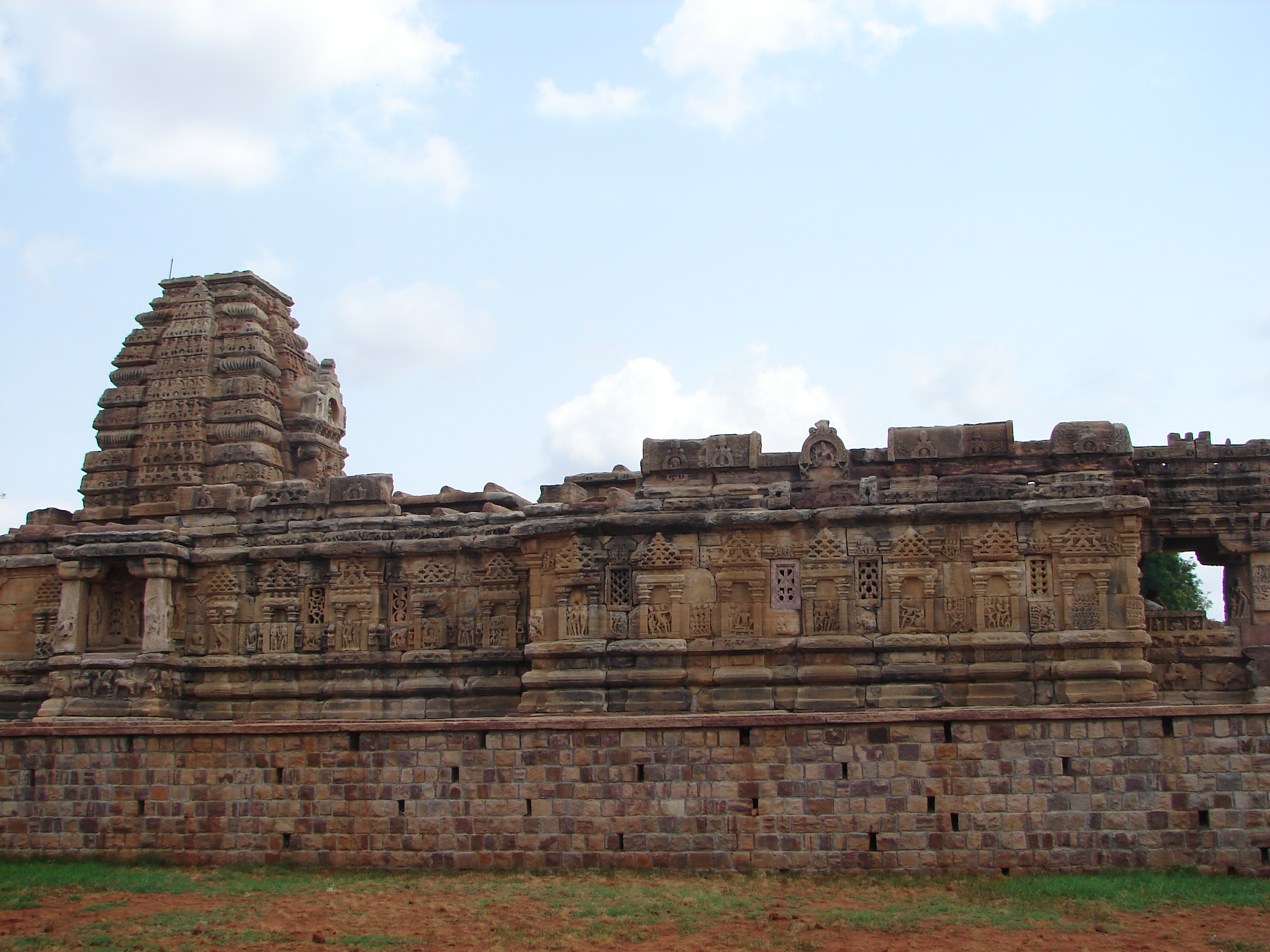 The Papanatha temple in Pattadakal, Karnataka, India is an early attempt by Badami Chalukya architects at fusing the south Indian dravida style with the north Indian nagara style and dates to around 680 CE.